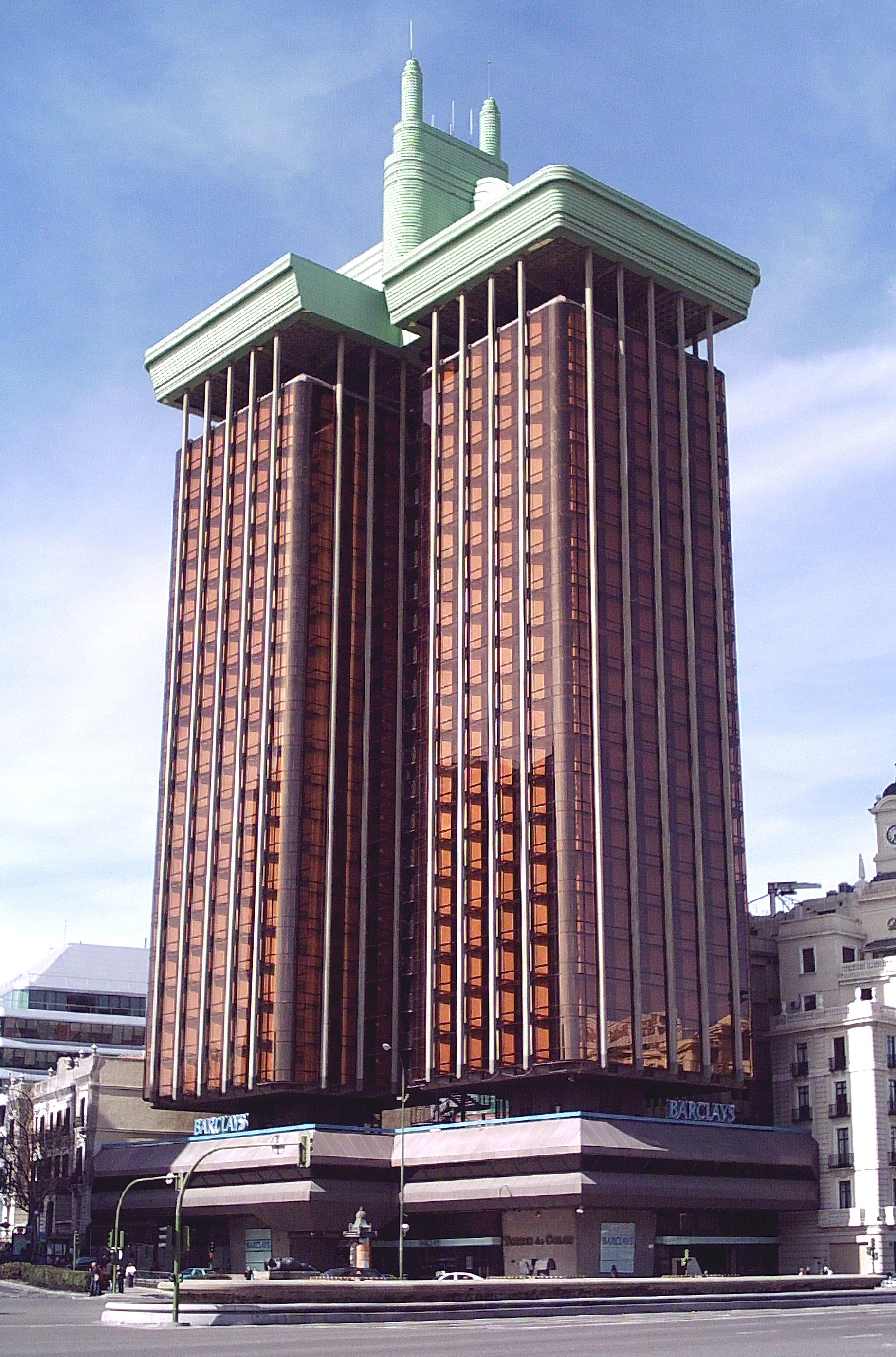 Torres de Colón, at the Plaza de Colón ("Columbus Square") in Madrid (Spain).